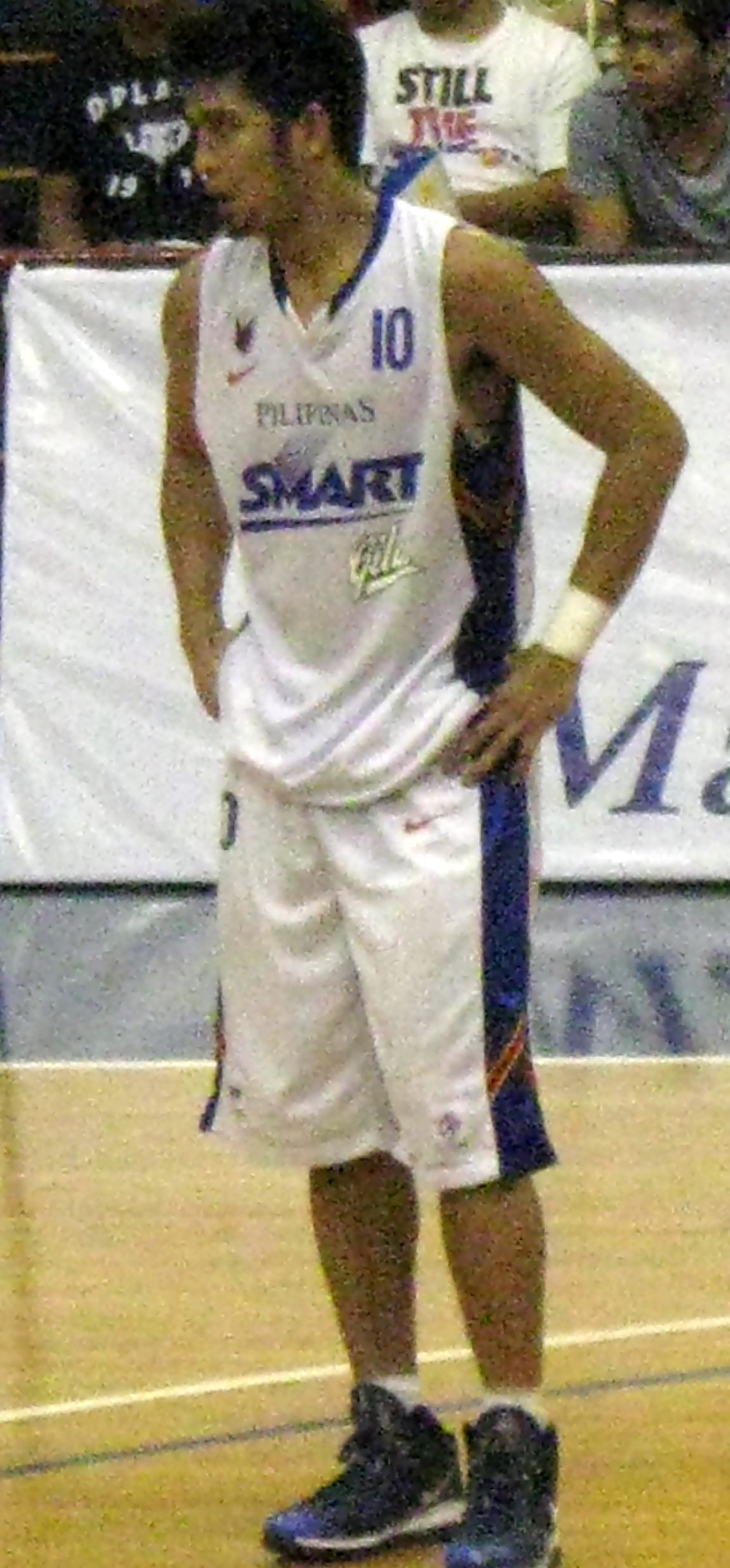 Photo of Mac Baracael taken during FIBA Asia Champions Cup at PhilSports Arena.